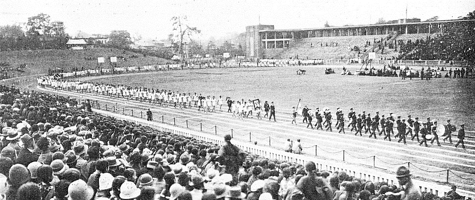 1927 Meiji Jingu Sports Festival